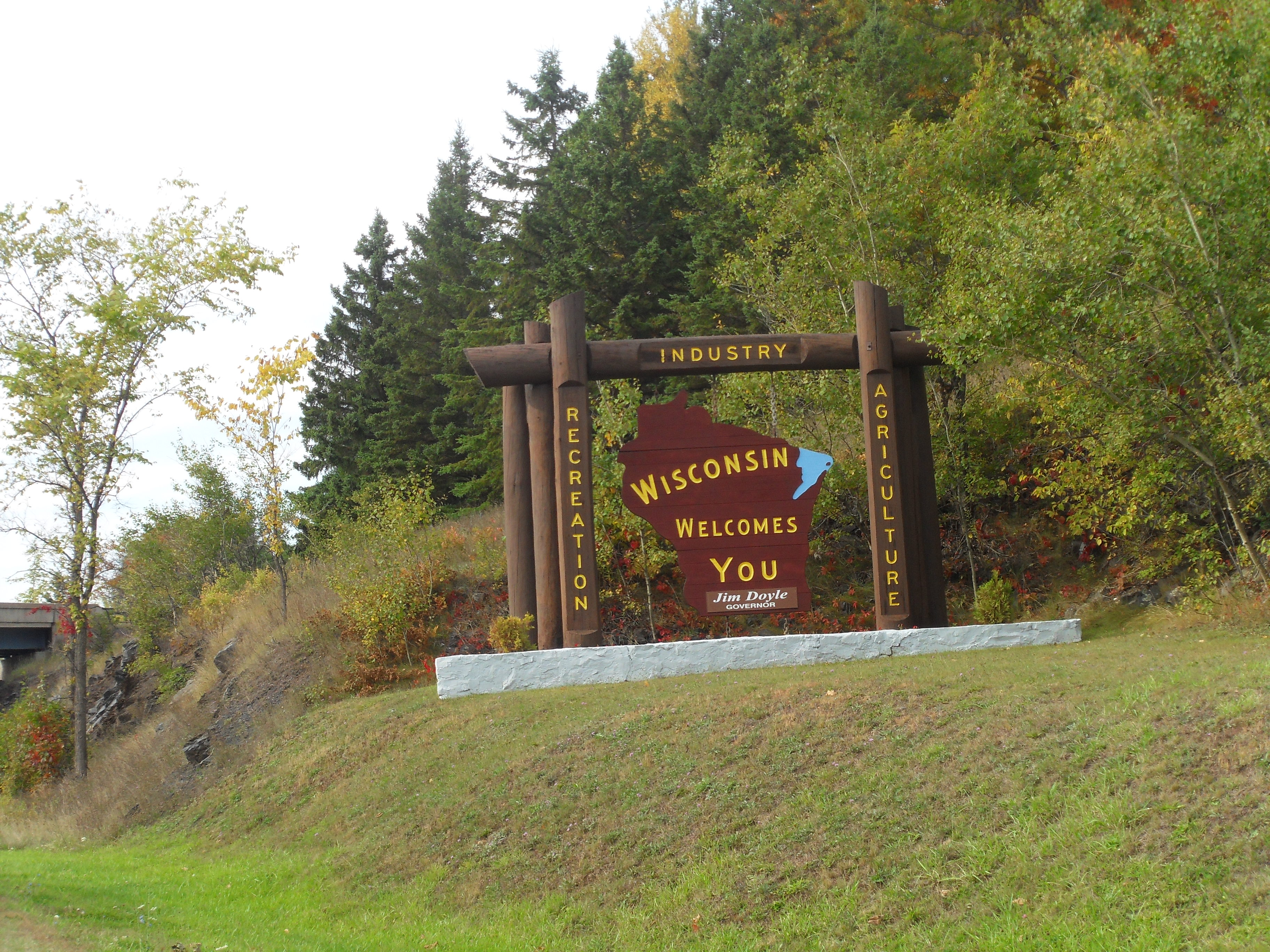 Wisconsin Welcome Sign